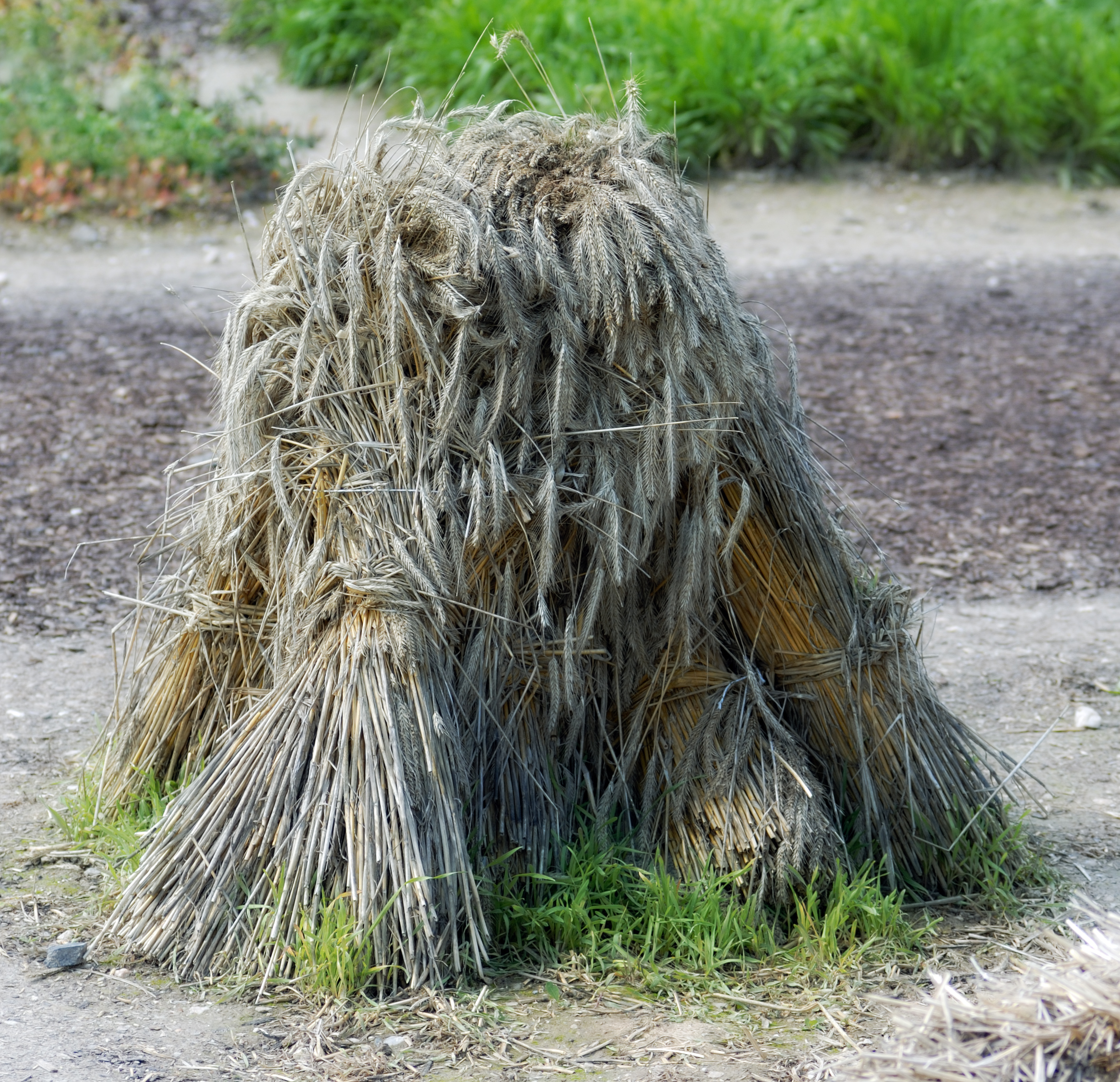 This image shows a rye shock (Secale cereale).